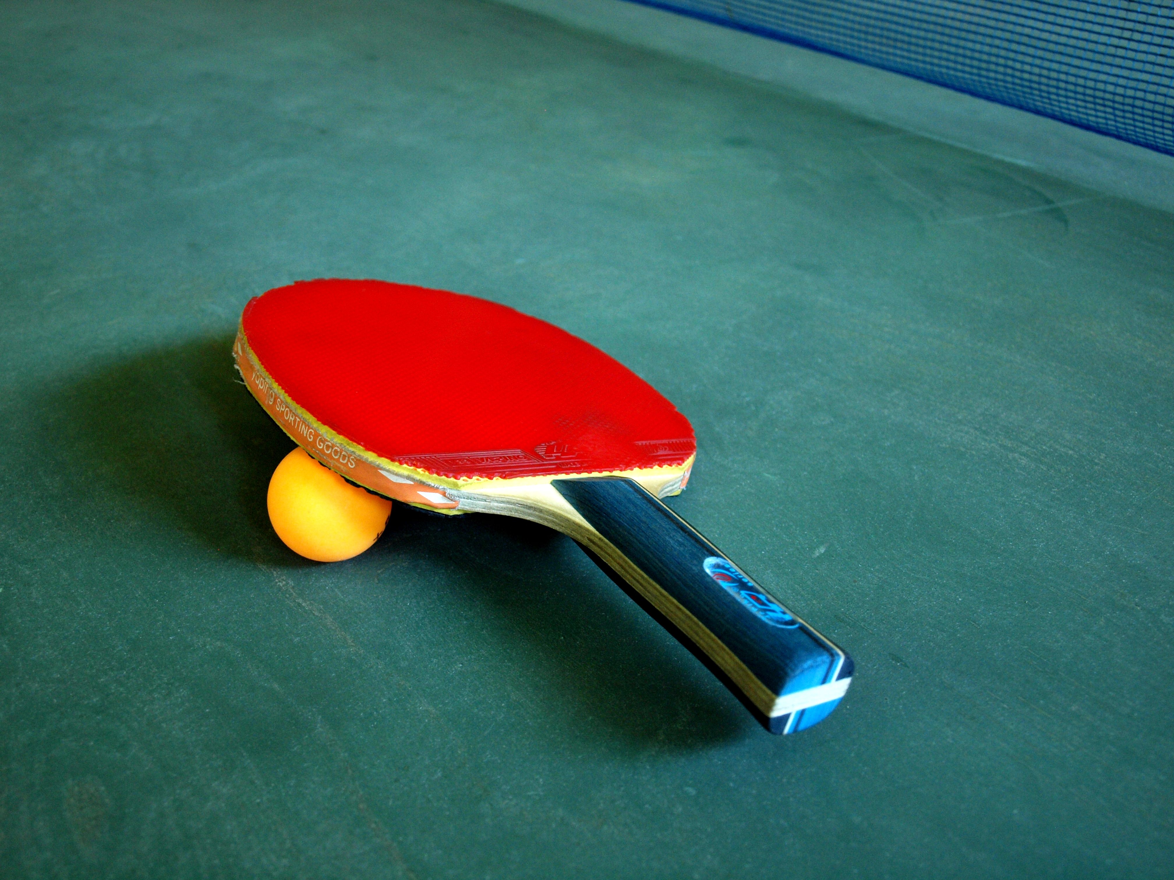 Table tennis bat and ball.